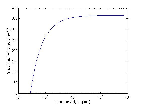 A plot showing the dependence of molecular weight (g/mol) on glass transition temperature (K), as described by the Flory-Fox equation.